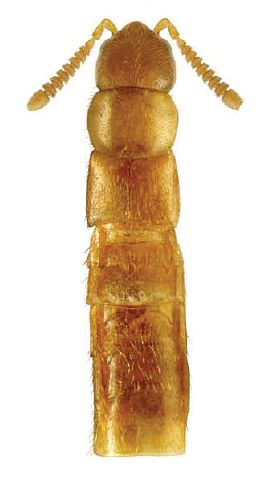 Lectotype of Alisalia brevipennis.